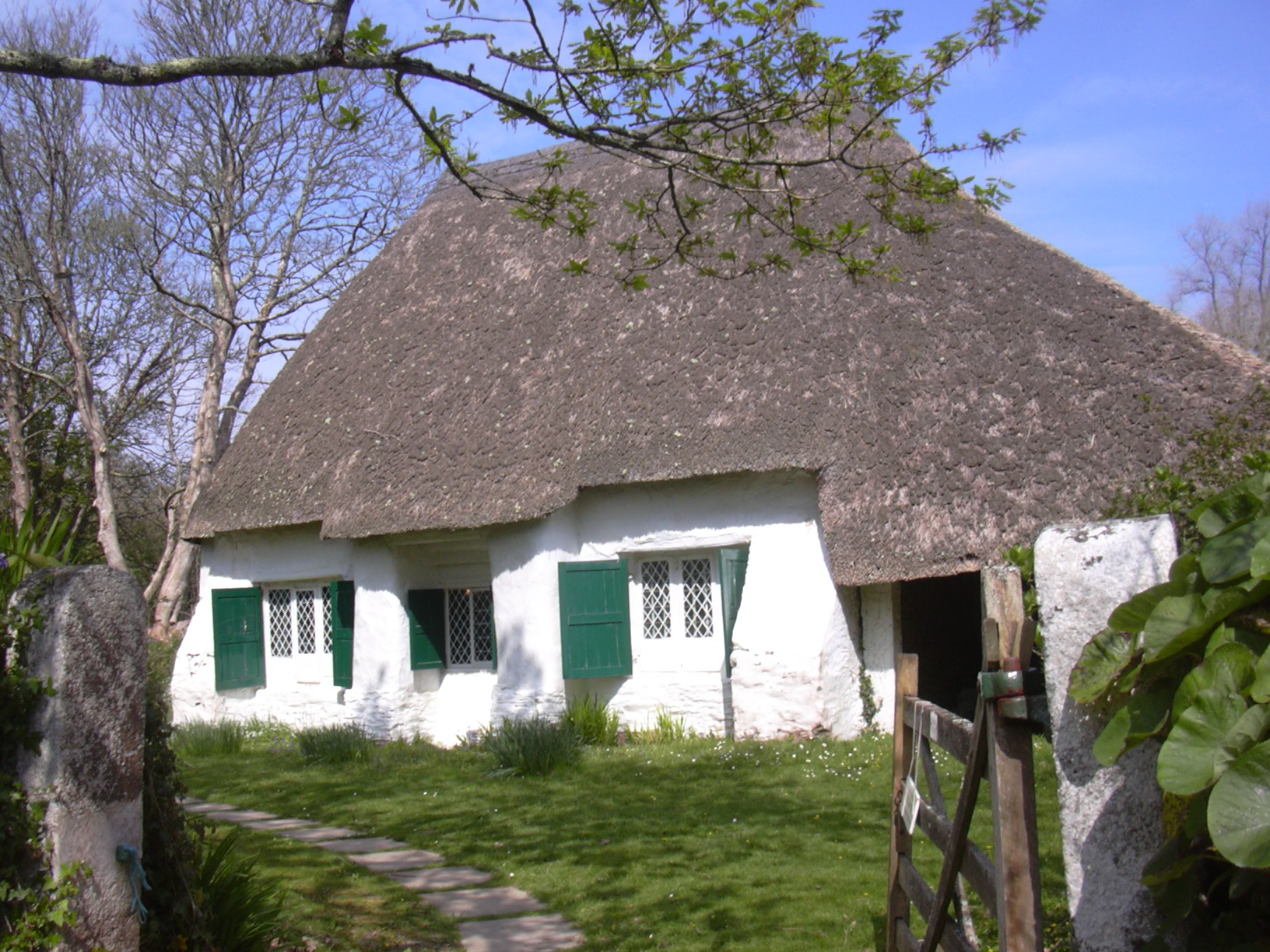 Come-to-Good Quaker Meeting House, Feock, Cornwall, UK, opened 1714